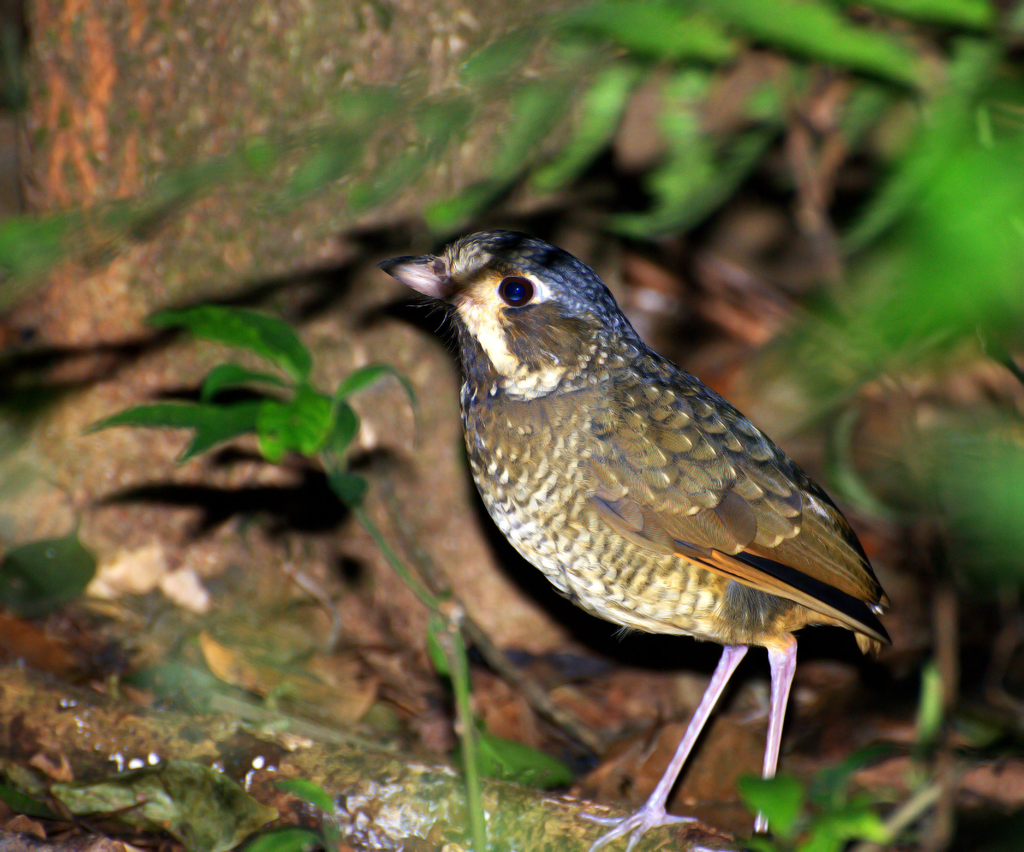 A Variegated Antpitta at Parque Estadual da Serra da Cantareira, Sao Paulo, Brazil.